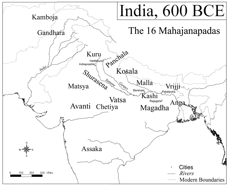 This map of the Mahajanapadas was made by me. Please discuss this map on the discussion page.